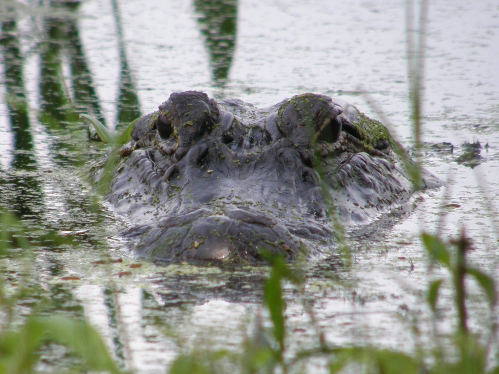 Visit to Brazo's Bend Park